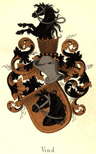 Coat of arms of the Vind family